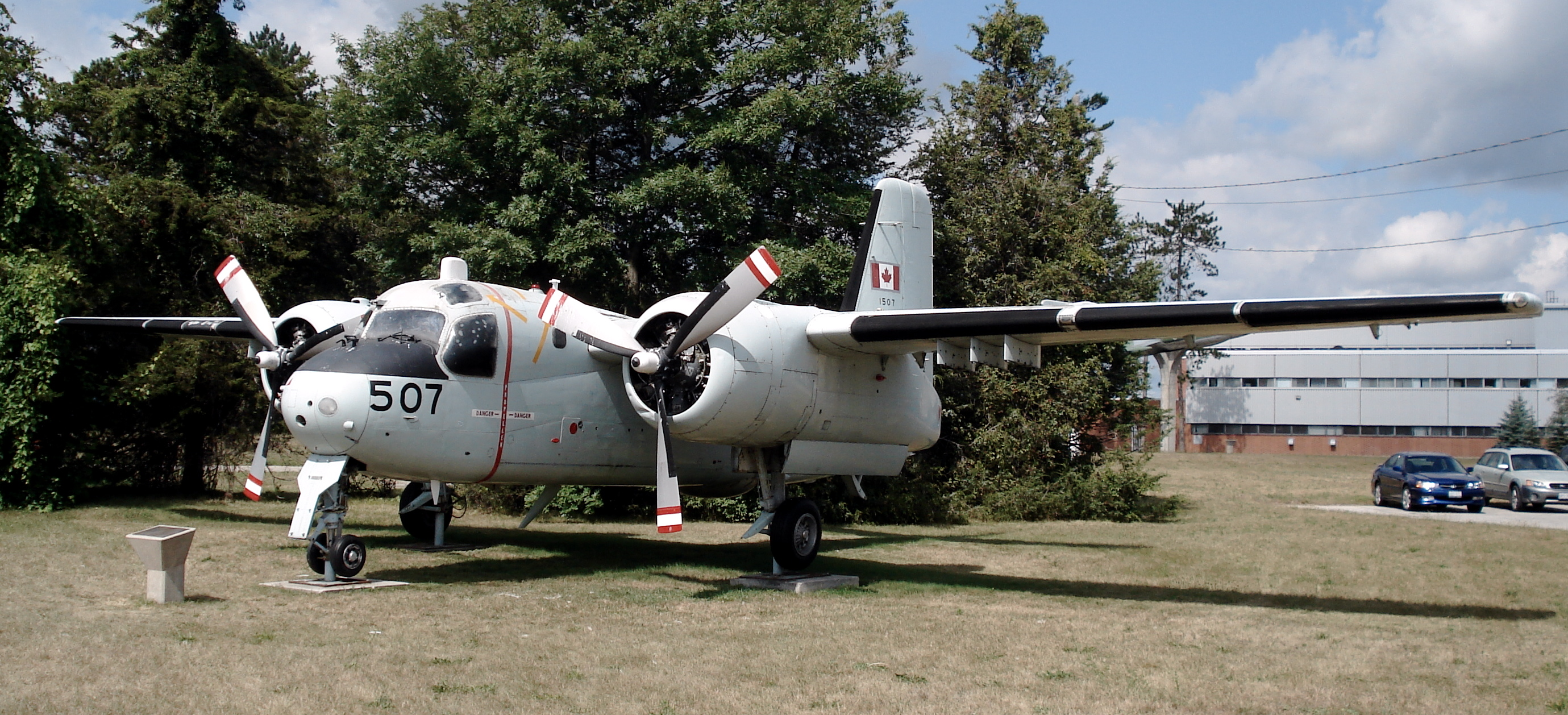 Canadian-made CS2F-2 Grumman Tracker ASW aircraft. This example is displayed on the grounds of CFB Borden (Base Borden Military Museum). Photo taken on August 18, 2006. Source: Photo by me, User:Balcer.